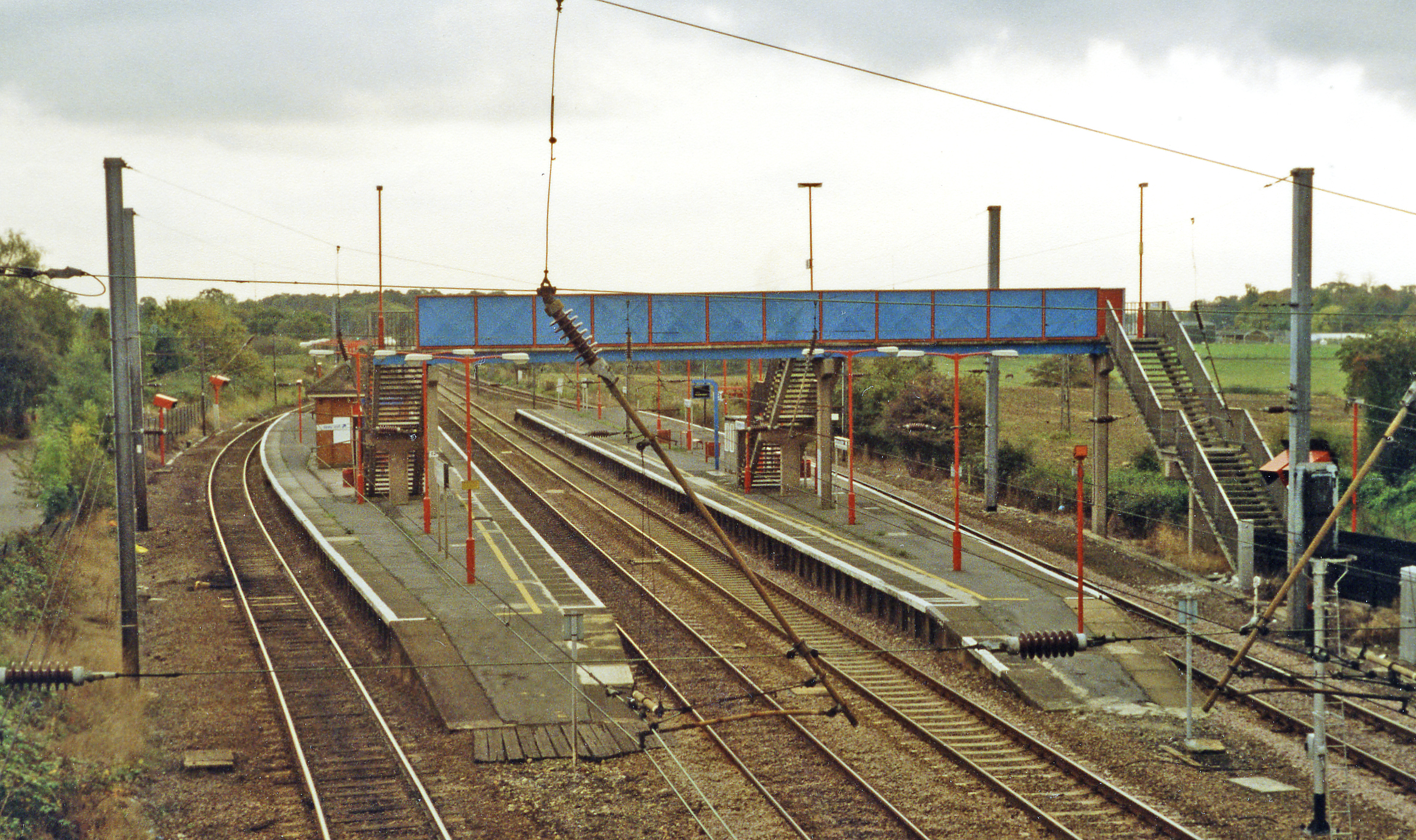 Brookmans Park station, East Coast Main Line, 1993 View southward, towards London: ex-GNR King's Cross - Doncaster section of the ECML. The station, between Potters Bar and Hatfield, is relatively new, having been opened by the LNER on 19/7/26.